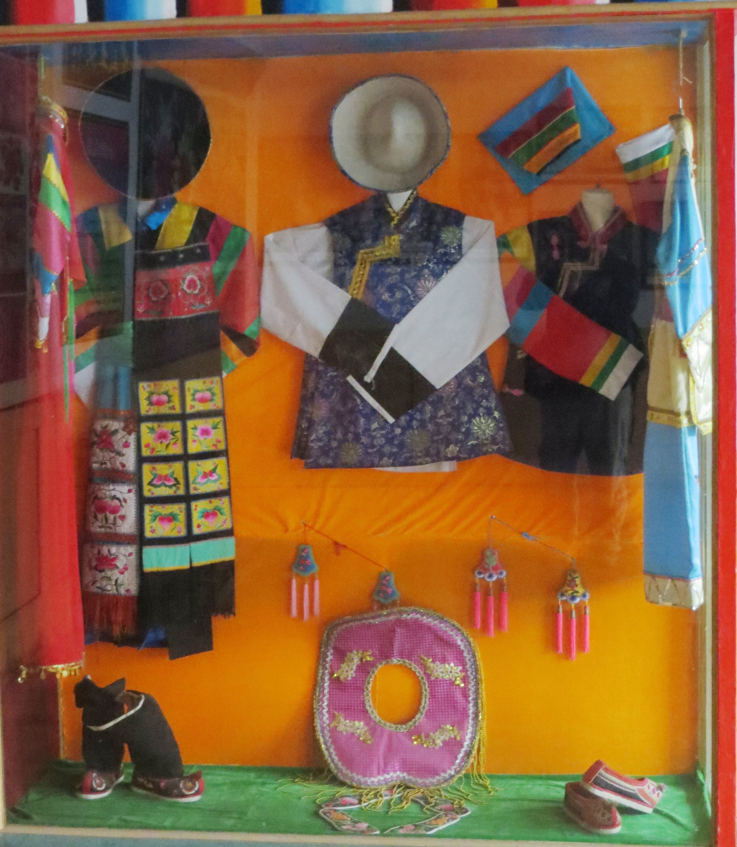 Tu (mongol minority from Qinghai) costumes at Ma Bufang Mansion, in Xining, Qinghai.